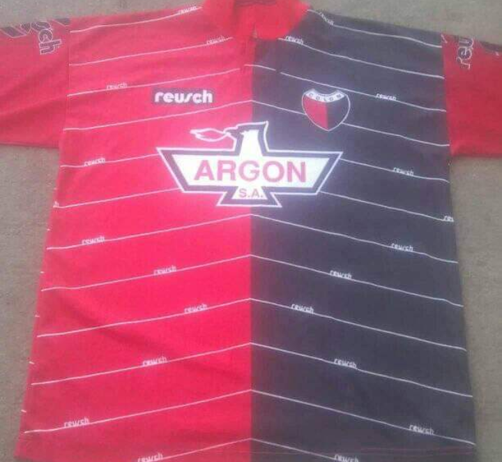 T-shirt holder of Colón 1993